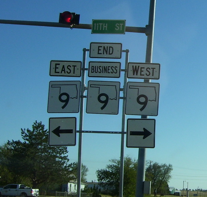 Signage at the south end of Business SH-9 in Hobart, Oklahoma.